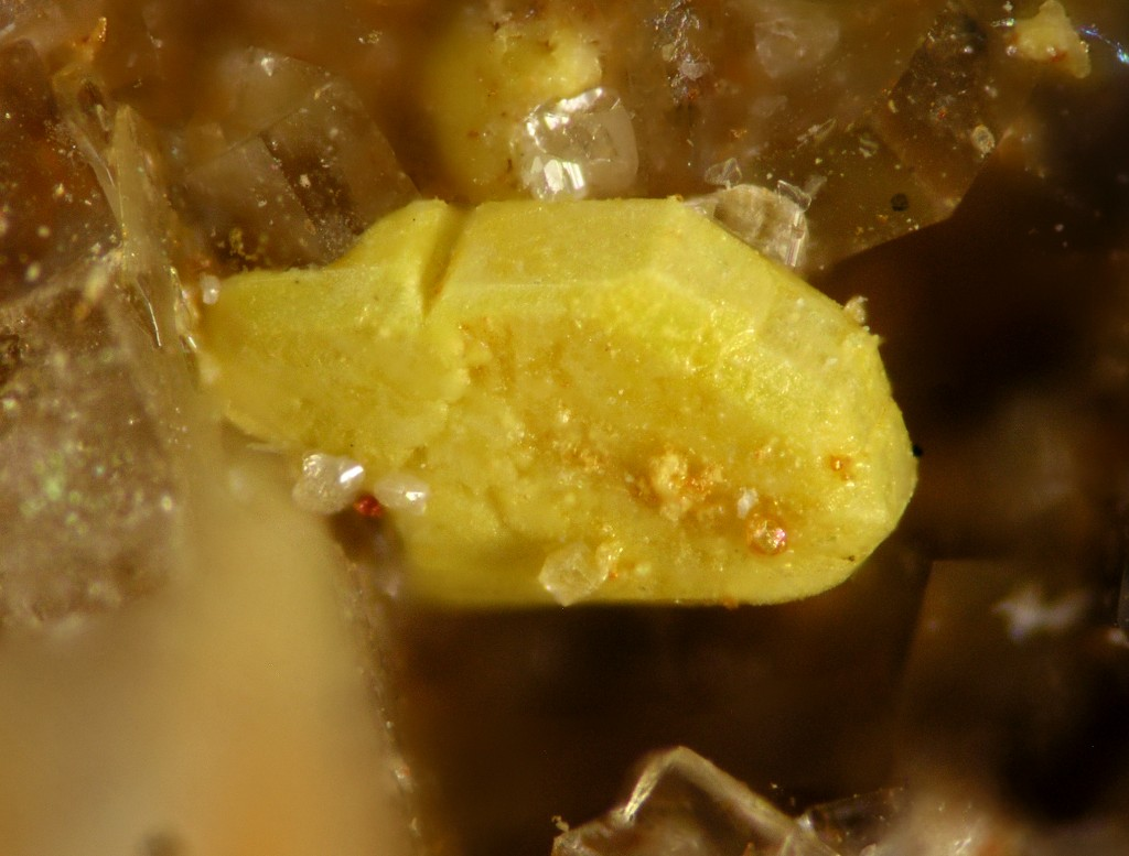 Oxyplumboroméite, Cerussite, Fluorite Locality: Sierra Minera de Cartagena-La Unión, La Unión, Murcia, Spain Pseudomorphosis of oxyplumboroméite after bournonite from a unknown (for me) mine of Sierra Gorda (Cartagena). Note the small Fluorite crystal (this mineral is common in that location) and cerussite